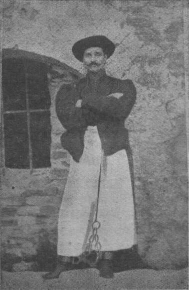 Sándor Rózsa in the Kufstein Fortress between 1859 and 1865